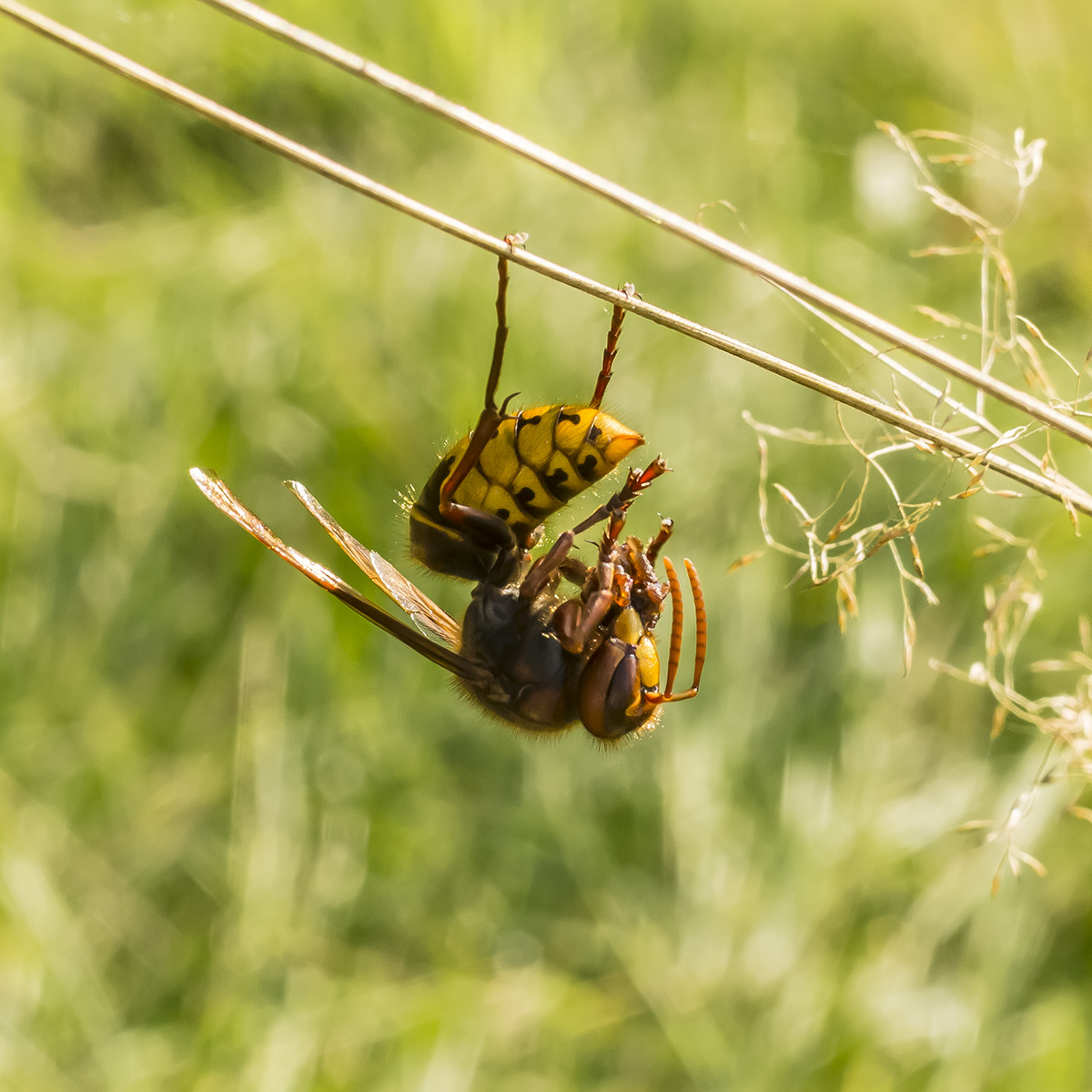 Hornet with prey